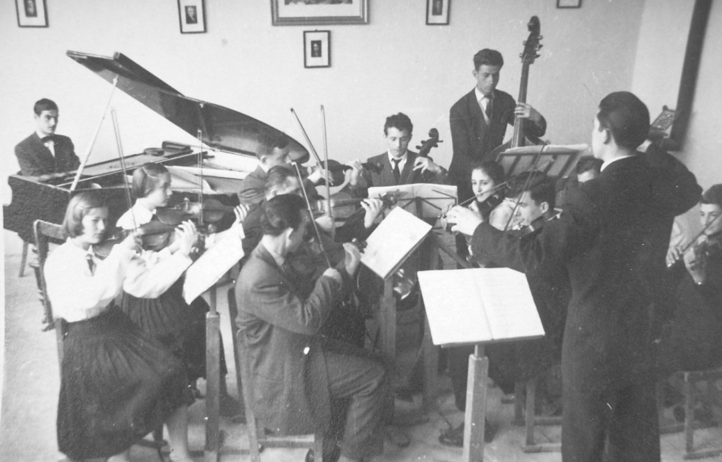 One of the first music orchestra in 1956 at the elementary music school in Kocani, Republic of Macedonia